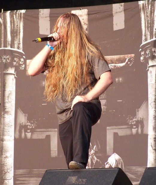 Legion of the Damned at Metal Camp, Slovenia 2009 (Maurice Swinkels)